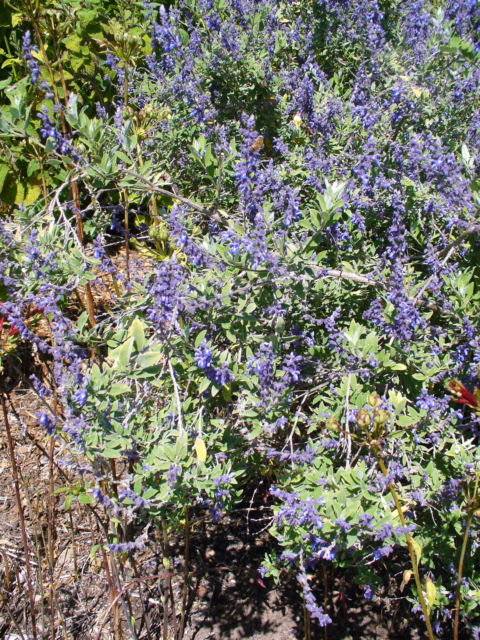 Salvia flocculosa, Botanic Garden, Cabrillo College, Aptos, CA. Photographed during the Salvia Summit, 1-2 Aug 2008.